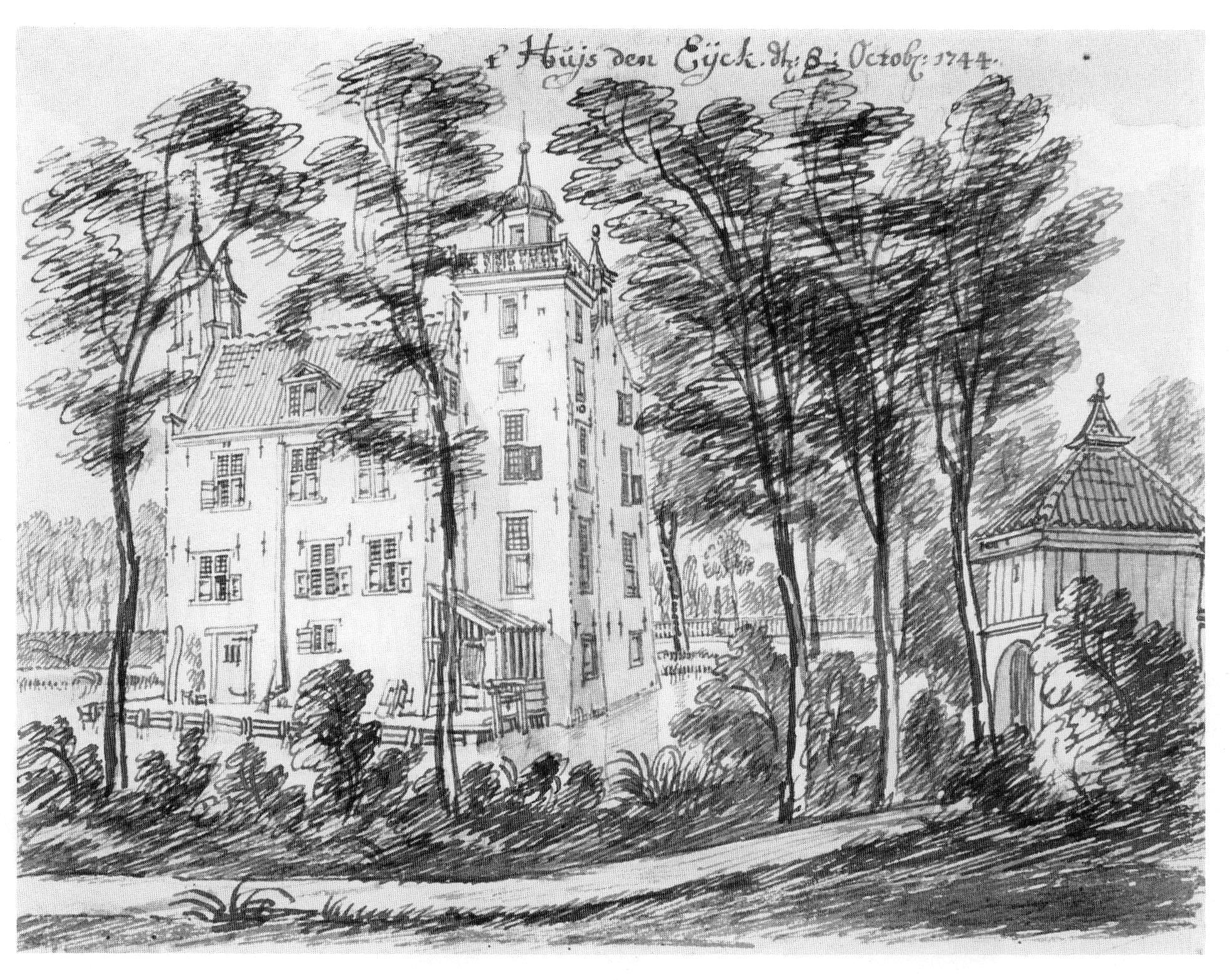 Castle Den Eyck, Vleuten